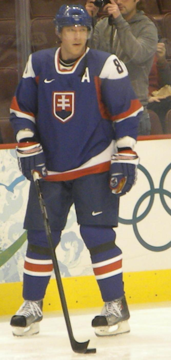 Marian Hossa of the Slovakia men's national ice hockey team, warming up before a match against the Czech Republic men's national ice hockey team in the 2010 Winter Olympics at Canada Hockey Place on February 17, 2010.}